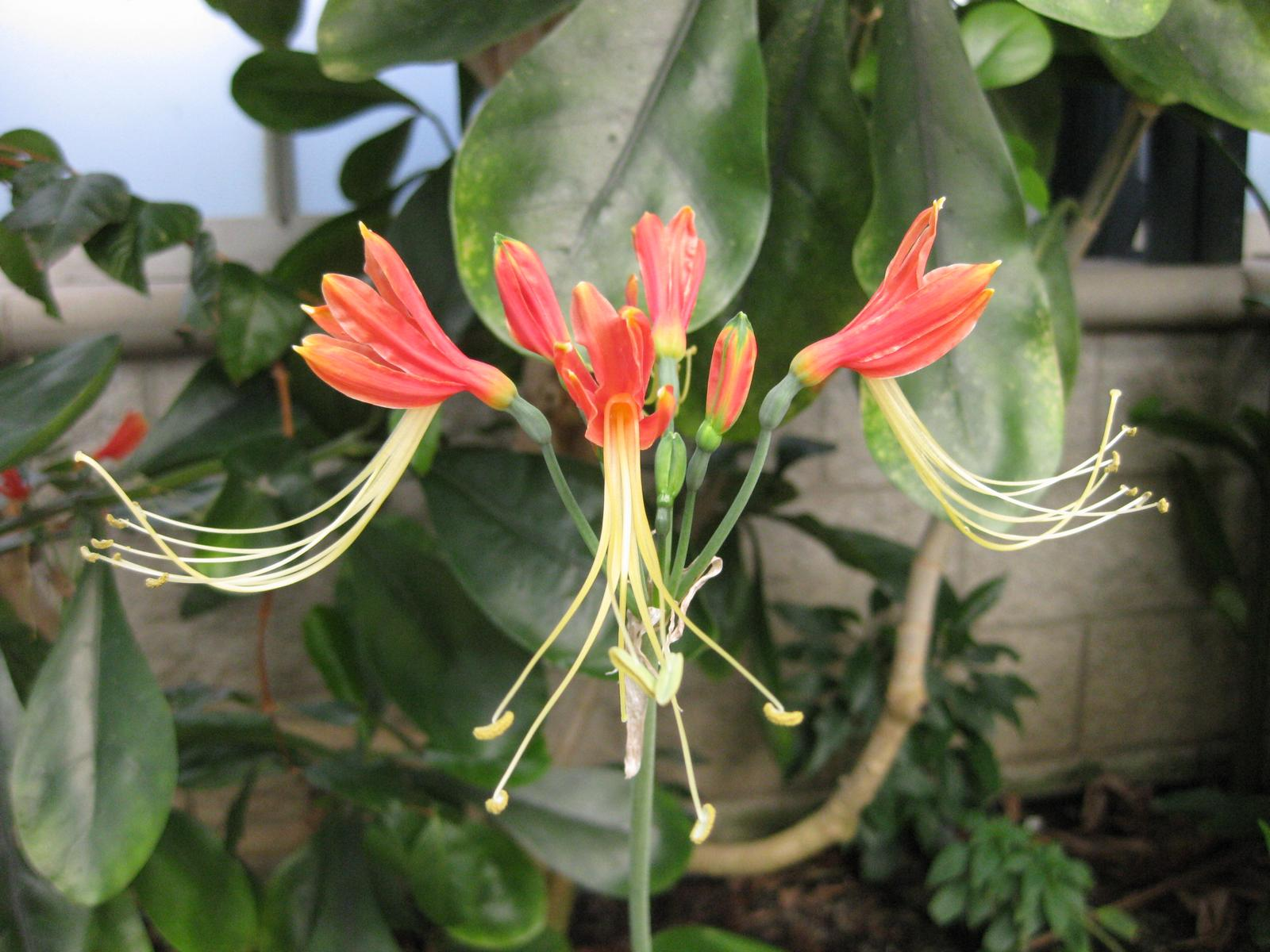 Photographed at Huntington Gardens (Los Angeles) in March